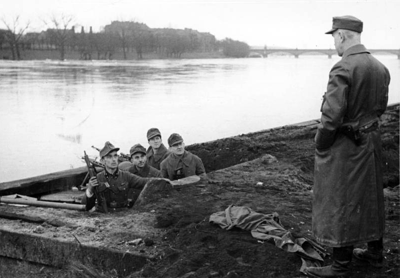 Men of the Volkssturm battaillons in Frankfurt occupying a defensive position on the Oder River. 12/2/1945 Scherl Image, Photographer: Pincornelly